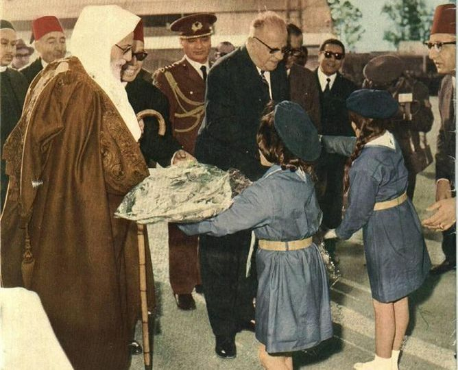 Turkish president Cevdet Sunay along with King Idris of Libya meet Libyan children in Sunay's visit to Libya. Former PM Mahmud al Muntasir, and Crown Prince Hassan are Standing behind King Idris.